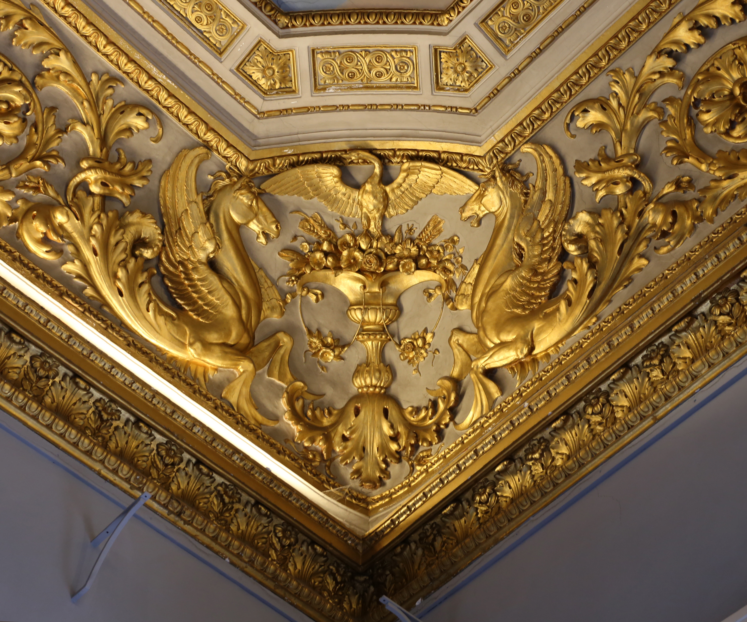 Villa Favard - Interior